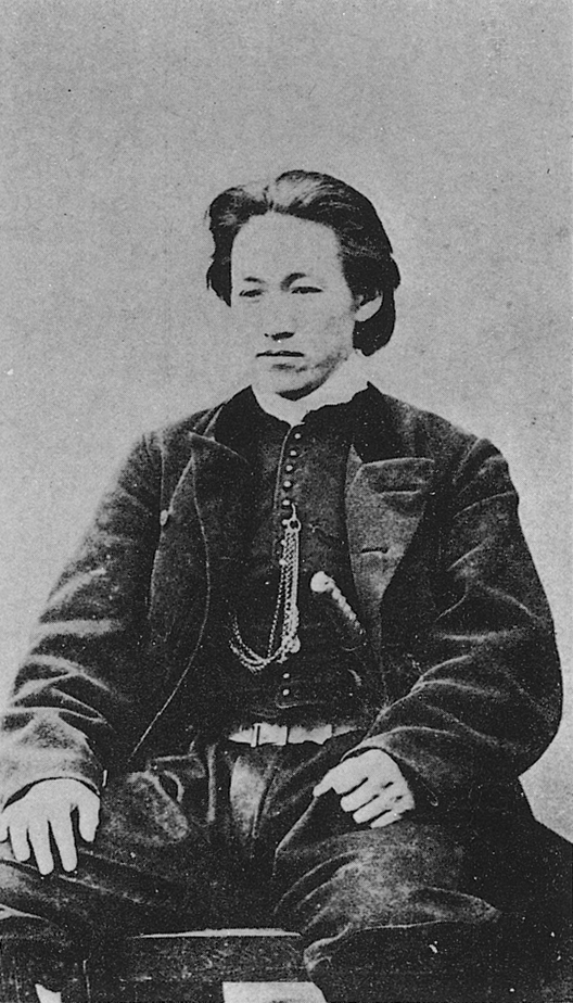 Portrait of Hijikata Toshizō (1835 – 1869)